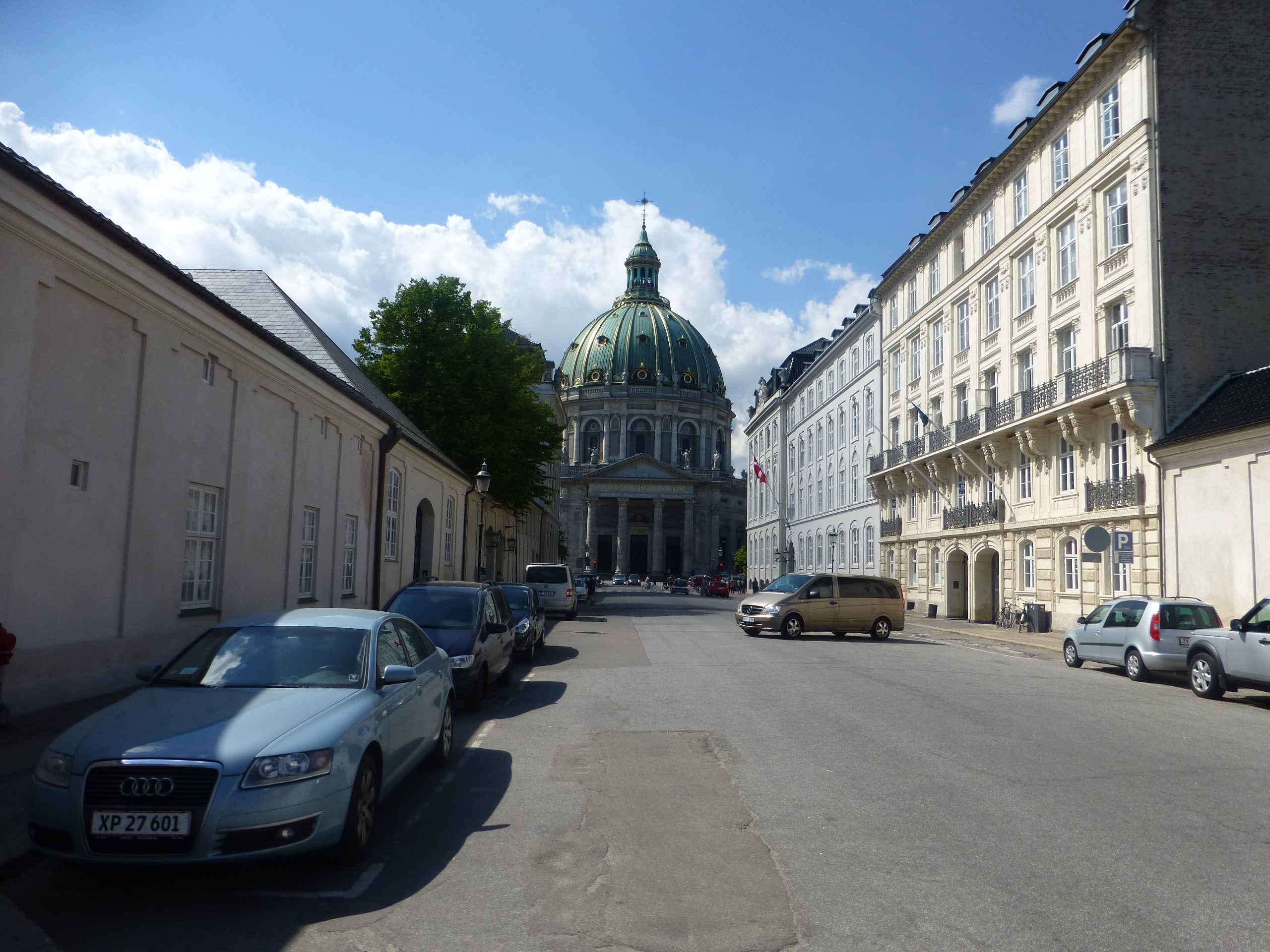 The street Frederiksgade in Indre By, Copenhagen. At the end Marmorkirken (The Marble Church).